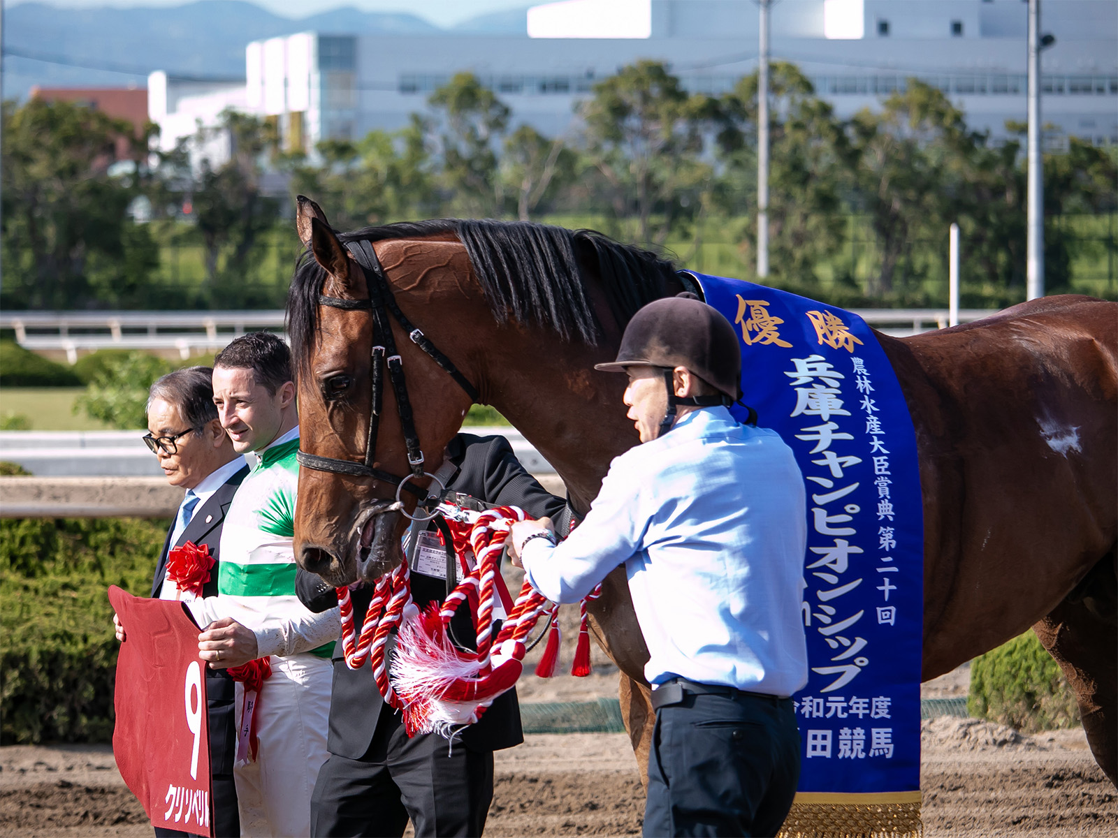 Chrysoberyl(JPN), Racehorse of Japan.